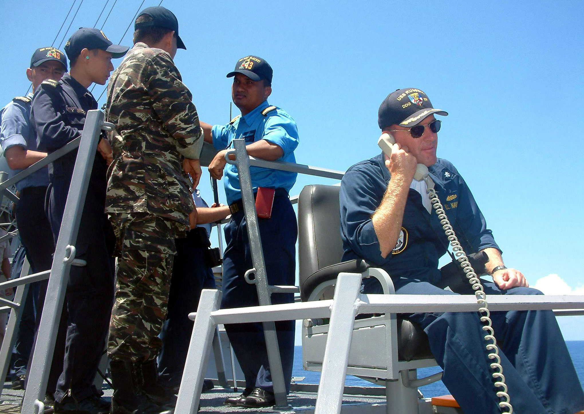 South China Sea (May 27, 2004) - Guided missile destroyer USS Russell (DDG 59), Commanding Officer, Cmdr. William Kearns III, communicates with his combat information center, giving the order of release during a weapons shoot, as liaison officers from the navies of Singapore, Thailand, Brunei, Indonesia, Malaysia and the Philippines stand behind him. The visit of the liaison officers to Russell was a scheduled event during exercise Southeast Asia Cooperation Against Terrorism (SEACAT) 2004, a scenario-driven exercise that centered around the tracking and boarding of simulated rogue merchant ships. U.S. Navy photo by Chief Journalist Melinda Larson (RELEASED)